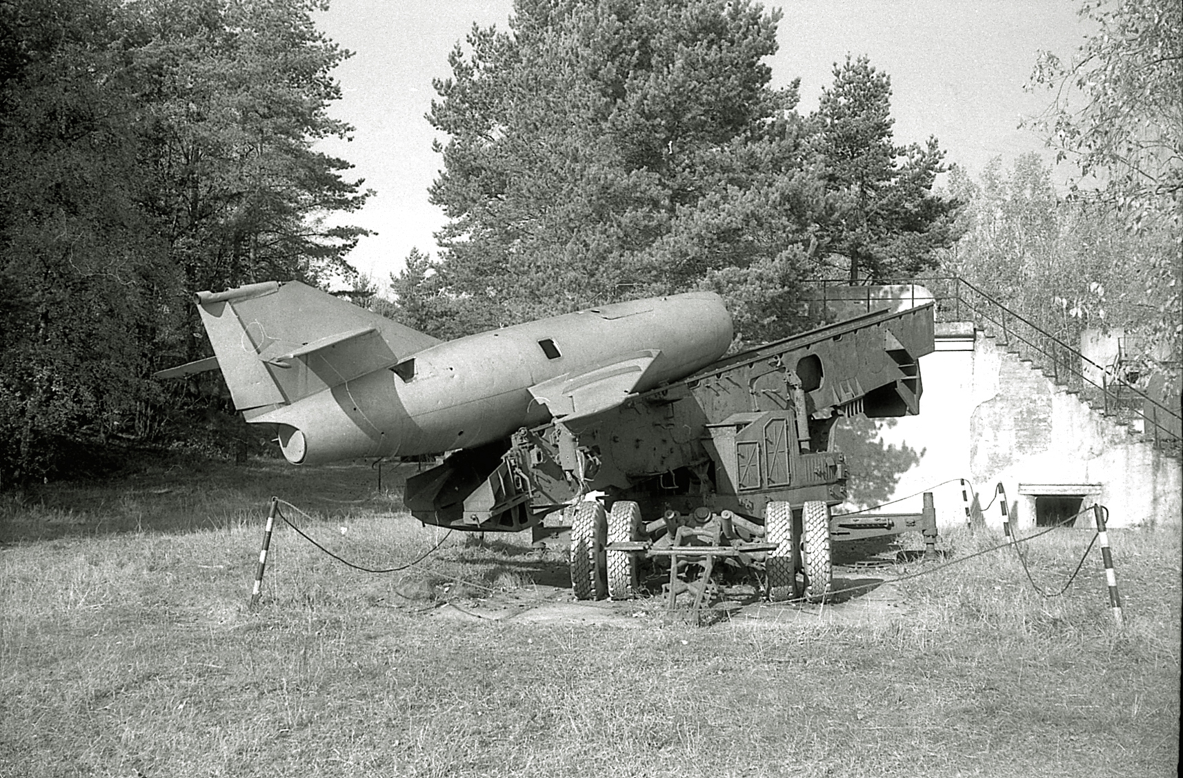 cruise missile on the launcher (profile). Fort "Krasnaia gorka" (Red hill)